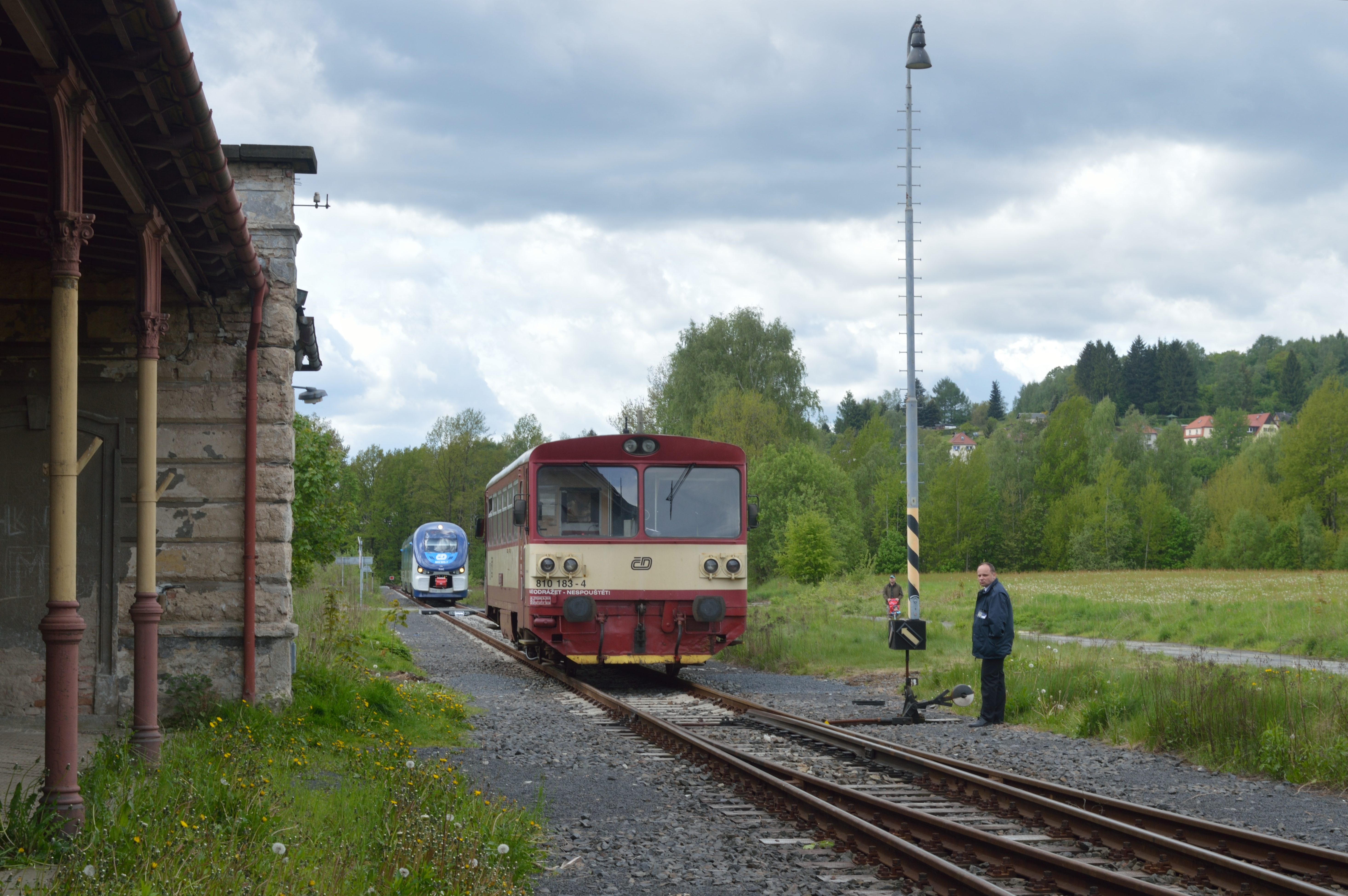 Unusual manoeuvre here at Dolní Poustevna on 11 May 2014. The station only has one platform which is sufficient for an in and out working once every two hours during the week. However at weekends extra trains operate and as a result one needs to be looped (to the right of the camera). In the far distance is "RegioShark" class 844 DMU no. 844.025 which will form train Os2609, 11:25 Dolní Poustevna to Děčín hl.n. The single car unit no. 810.183 next working will be train Os26040, 12:06 Dolní Poustevna to Rumburk. This will take an alternative route via Panský which only sees trains at the weekend. The station marked the end of normal daily operations until 4 July 2014, however continues on behind the class 844 for a few more hundred metres over the border into Germany. Just over the border the line joins up at Sebnitz (Sachs). Regular through trains over the border have been set into operation on 5 July 2014.